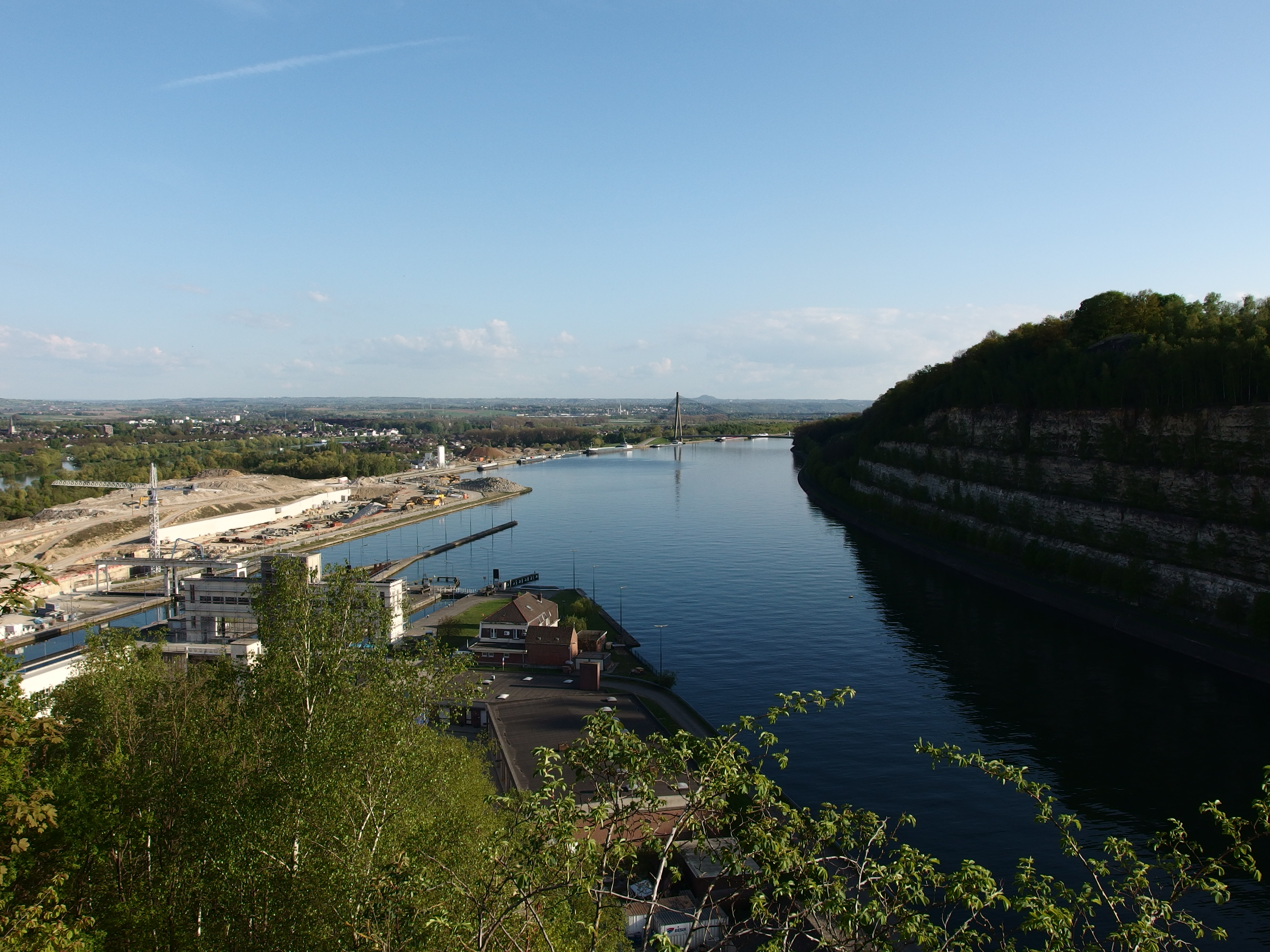 2013-05-05 on Plateau van Caestert.